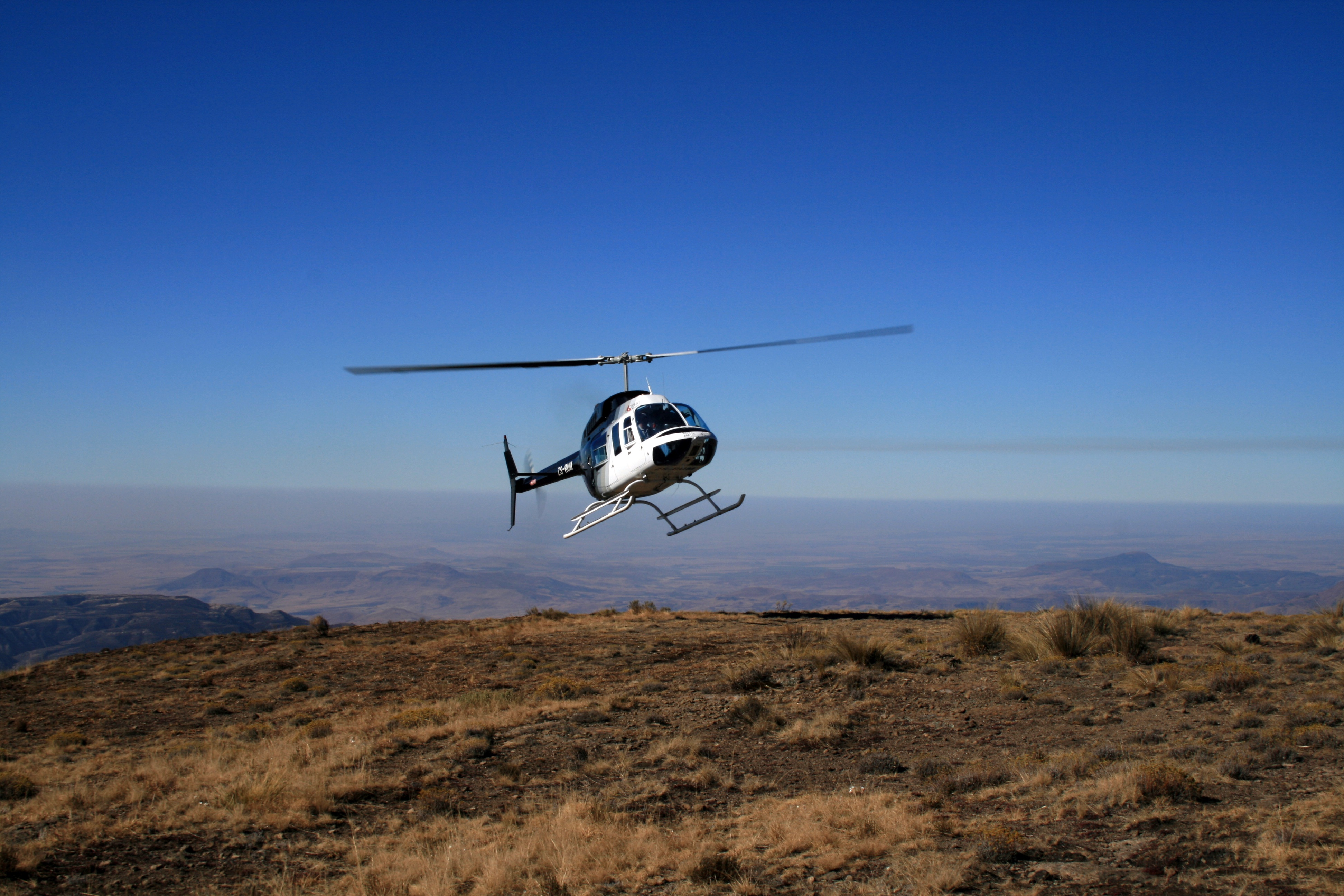 Model: 206L-3 LongRanger III